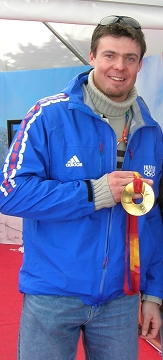 Antoine Dénériaz, french former alpine skier, with olympic medal of downhill in 2006